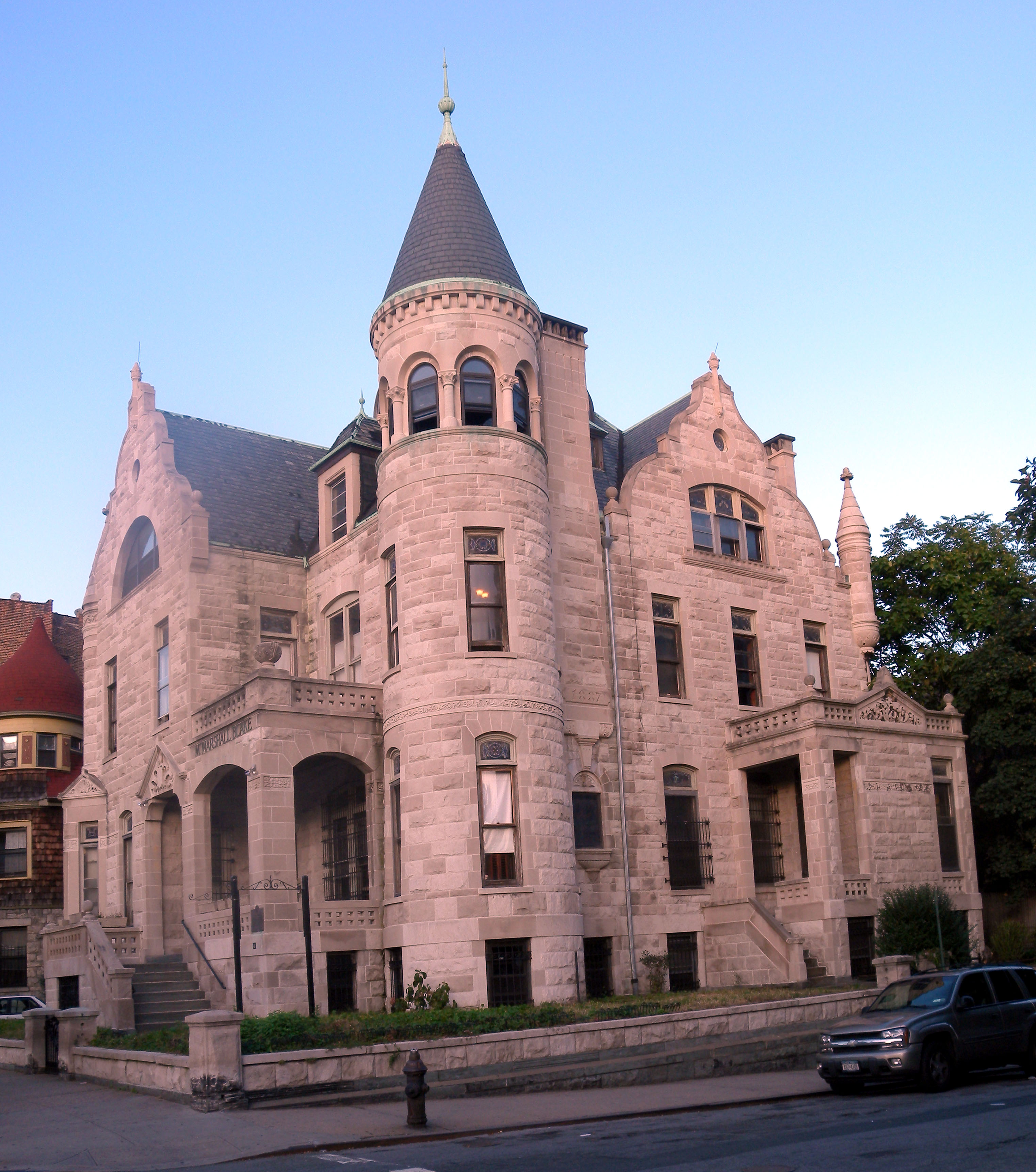 Looking northeast along St Nicholas Place at the James Anthony Bailey (circus) mansion at dusk of a clear day. See also File:Baily 10 St Nick Pl 150 jeh.JPG.